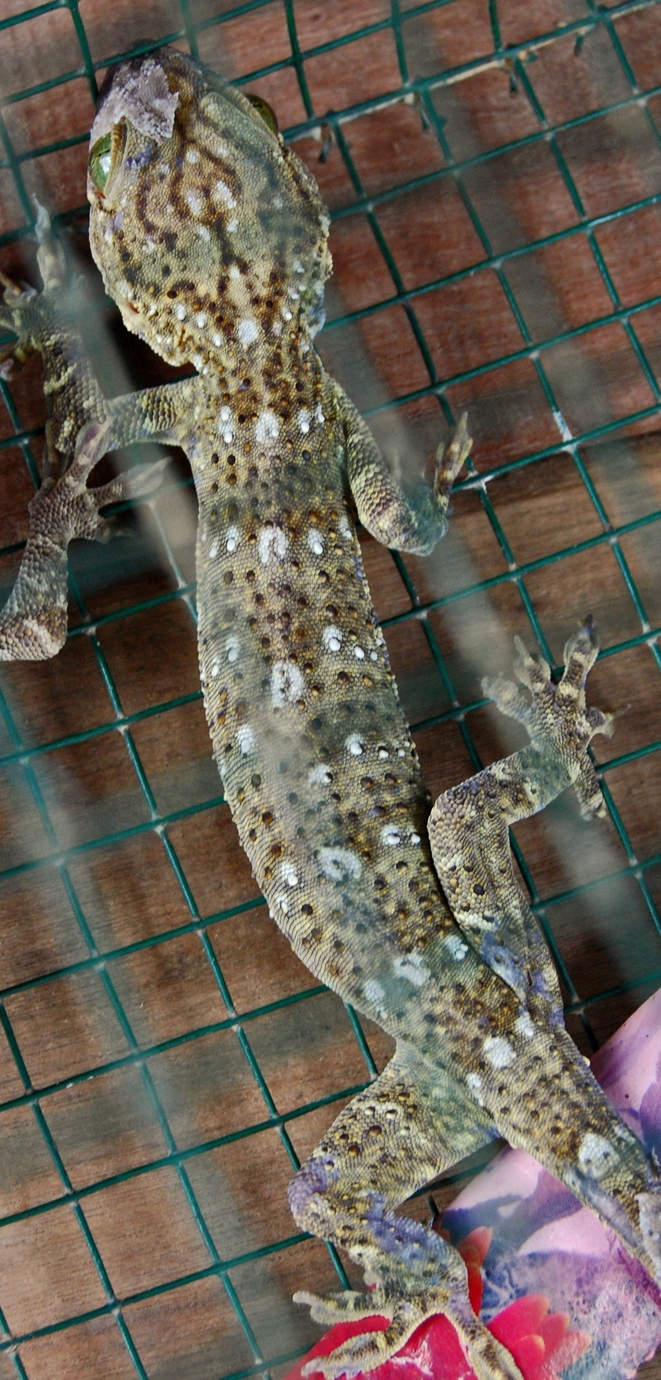 Gekko smithii, Large Forest Gecko; from oil-palm plantation in Upper Seruyan, Central Kalimantan, Indonesia. Vertical version of Gek smith 090810-10490 klr.jpg